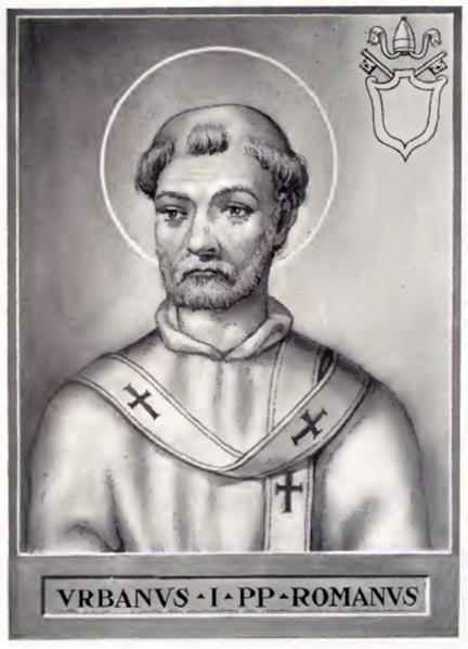 This illustration is from The Lives and Times of the Popes by Chevalier Artaud de Montor, New York: The Catholic Publication Society of America, 1911. It was originally published in 1842.